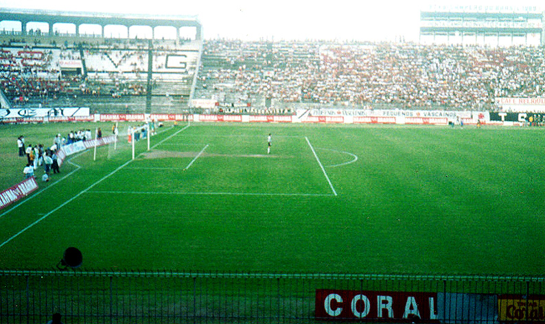 Friendly match: Vasco da Gama 0 x 0 Cruzeiro at São Januário Stadium, Rio de Janeiro on May 22, 1994